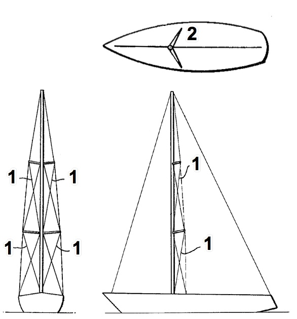 Diagram showing key characteristics of the B&R rig including swept spreaders and reverse diagonal shrouds.